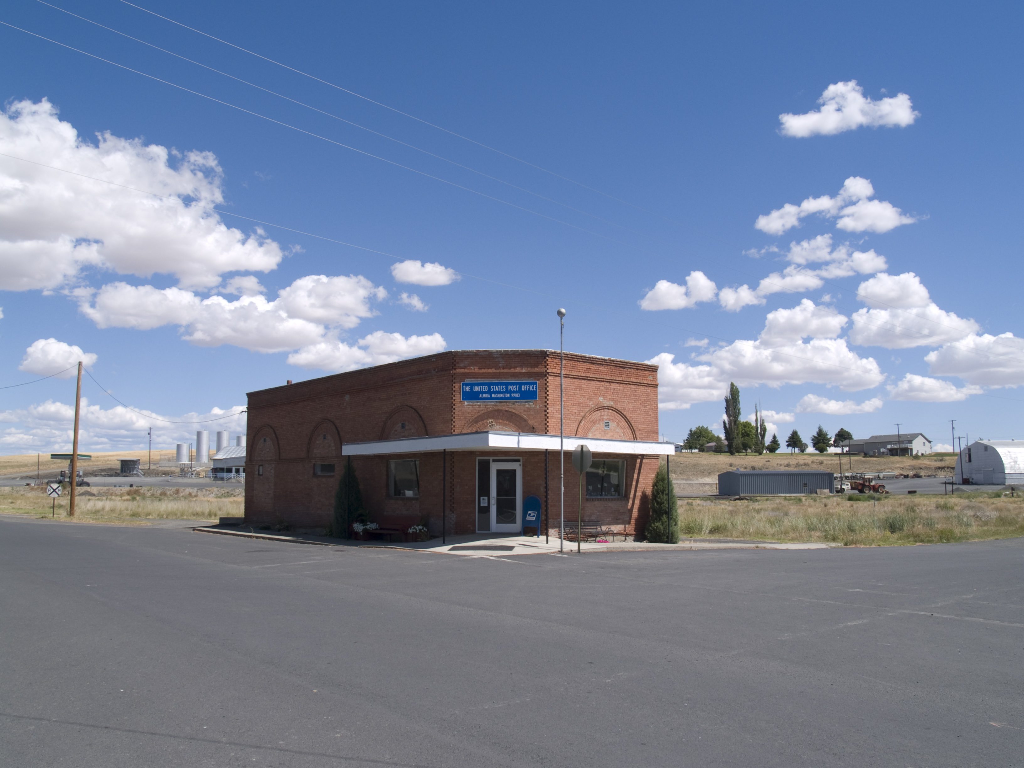 Post office in Almira Washington